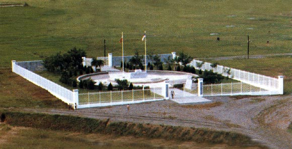 The Cabanatuan American Memorial was erected by the survivors of the Bataan Death March and the prisoner of war camp at Cabanatuan in the Philippines during World War II. It is located at the site of the camp and honors those Americans and Filipinos who died during their internment. The American Battle Monuments Commission, recognizing the significance of this memorial, accepted responsibility for its operation and maintenance in 1989.